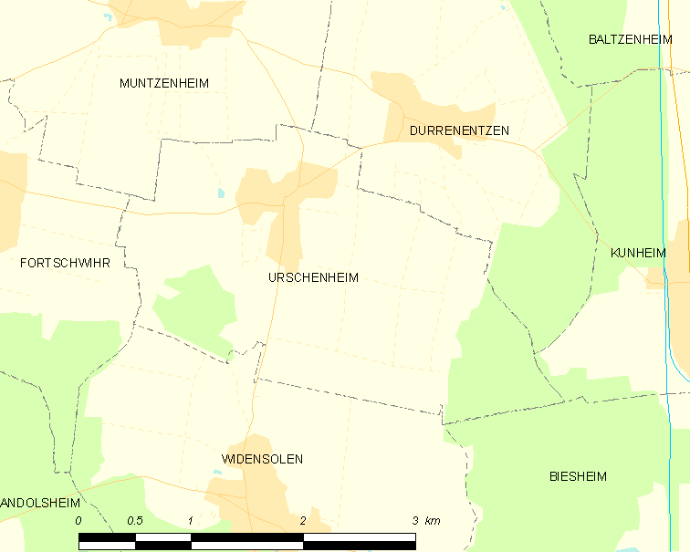 Map of French municipality